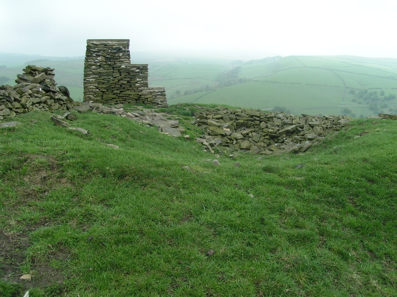 Yearns Low The purpose of the stepped structure (which appears to be of recent construction) is uncertain. It stands on a Bronze Age bowl barrow - - with extensive views to Big Low and (in this direction) Ely Brow. The hollow in the centre is the result of 19th-century excavation. The barrow is unusual in Cheshire in displaying re-use during the Roman period.